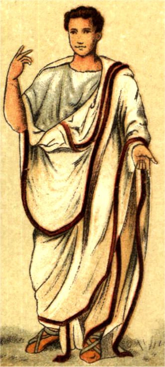 Roman in toga praetexta